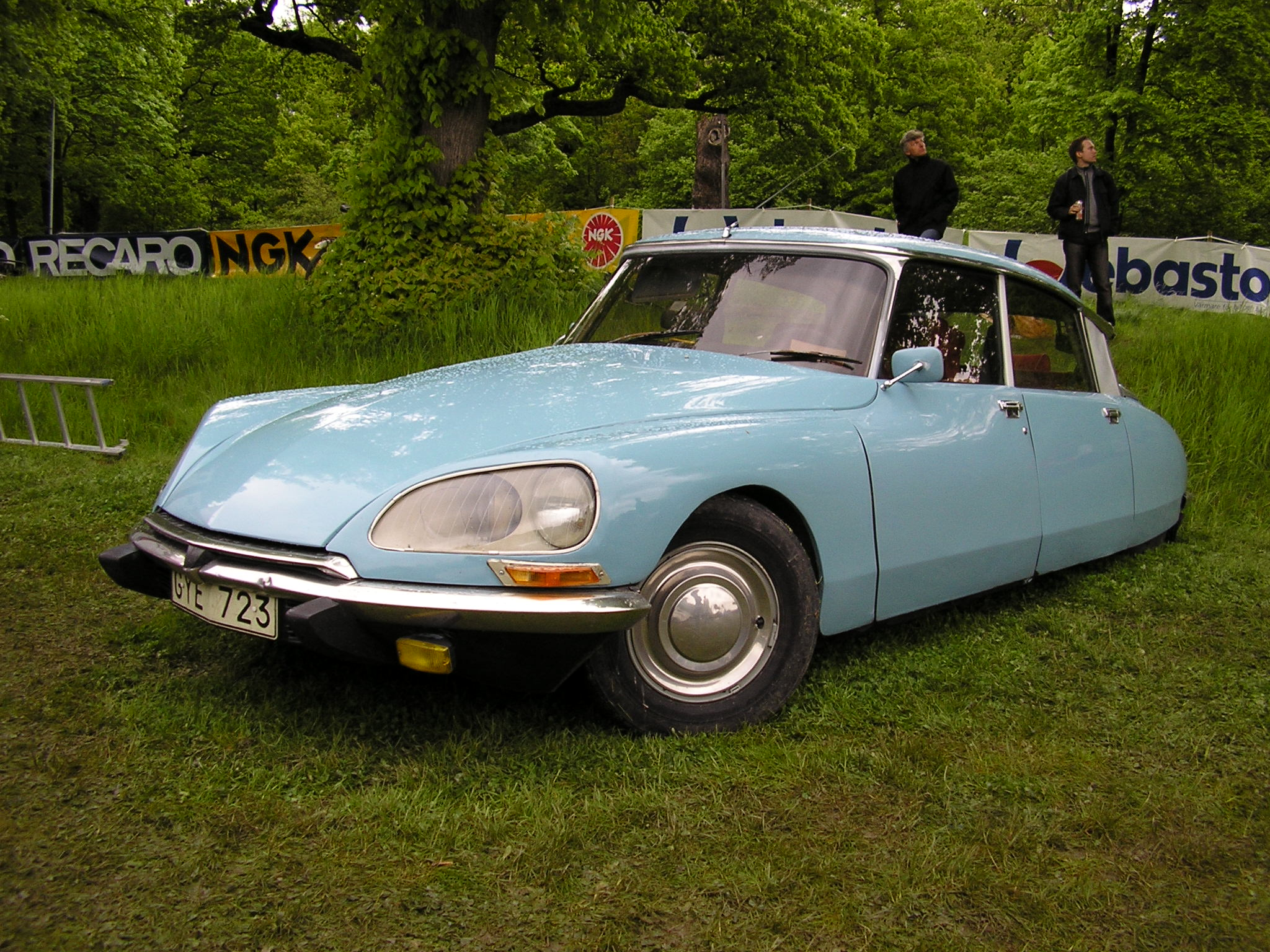 A 1975 Citroën D Super DS FD photographed by myself at Prins Bertil Memorial in Stockholm, Sweden.